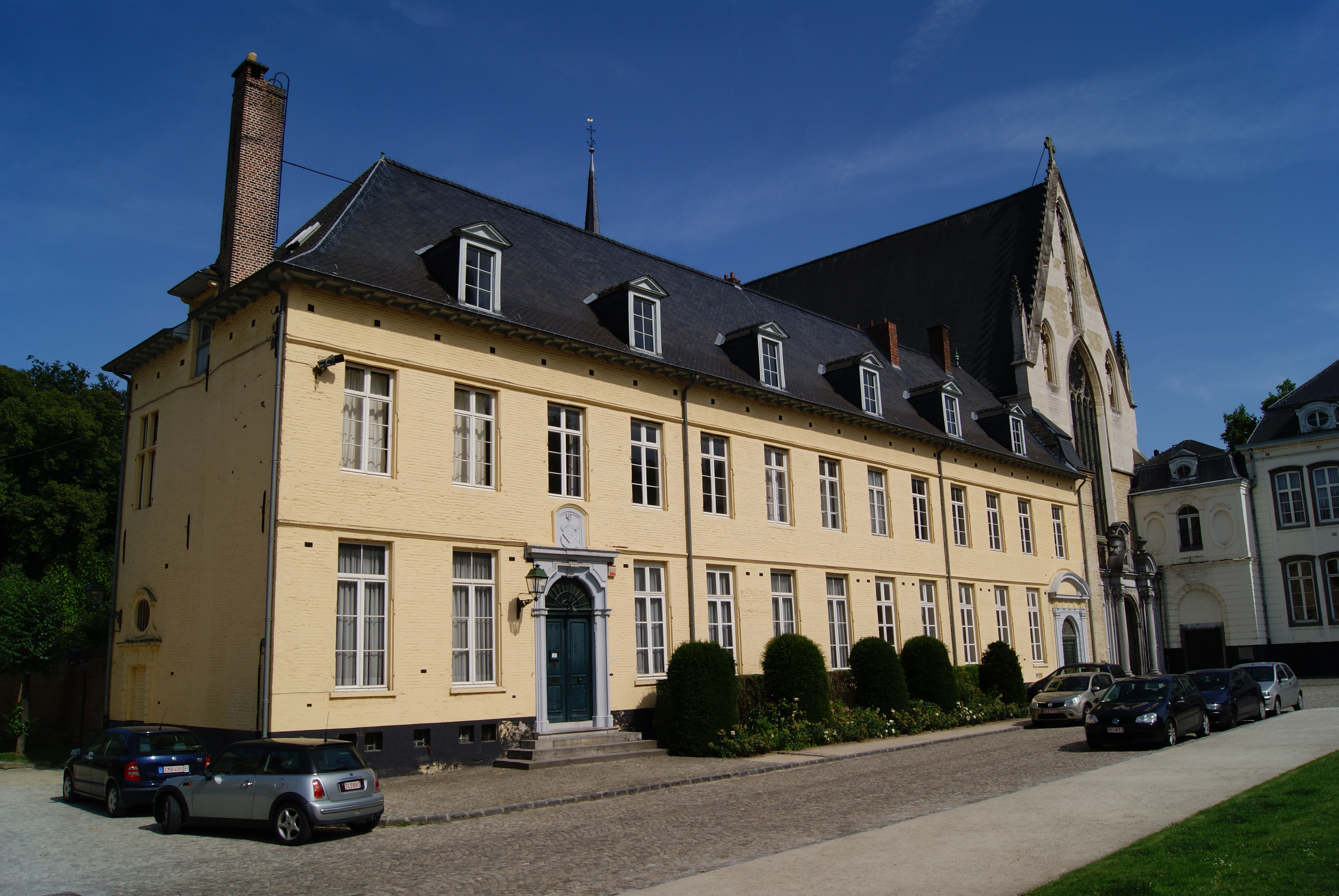 Ixelles (Belgium), the eastern buildings of the the "Cour d'honneur" and the church of the previous La Cambre Abbey.